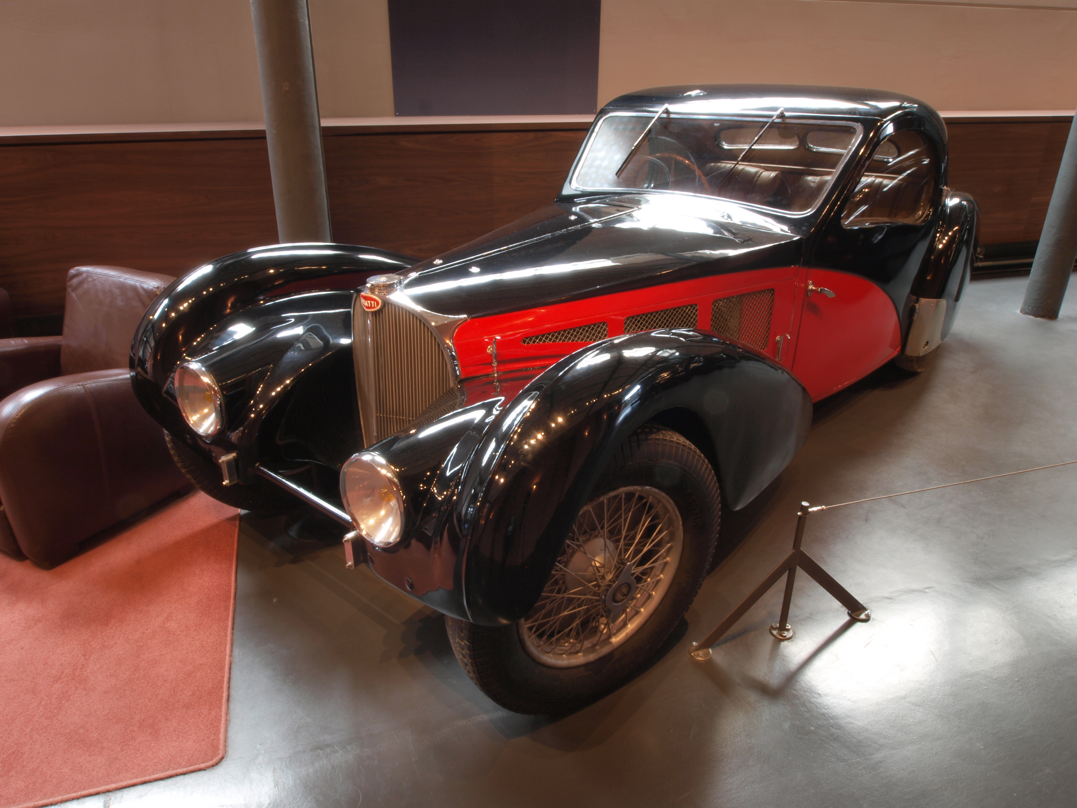 Bugatti Type 57 "Atalante"; photographed at the Cité de l’Automobile, France. OLYMPUS DIGITAL CAMERA